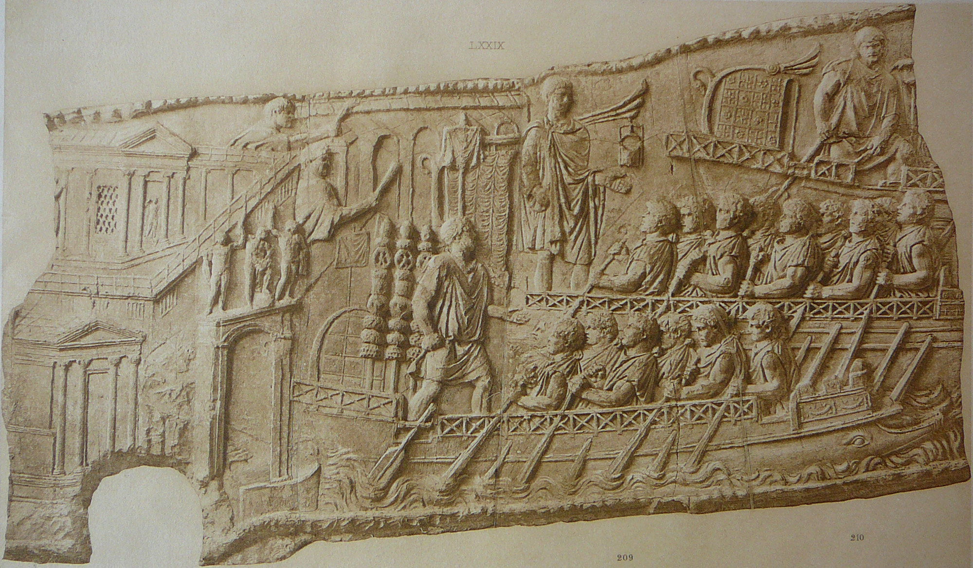 Trajan’s voyage (scene LXXIX)